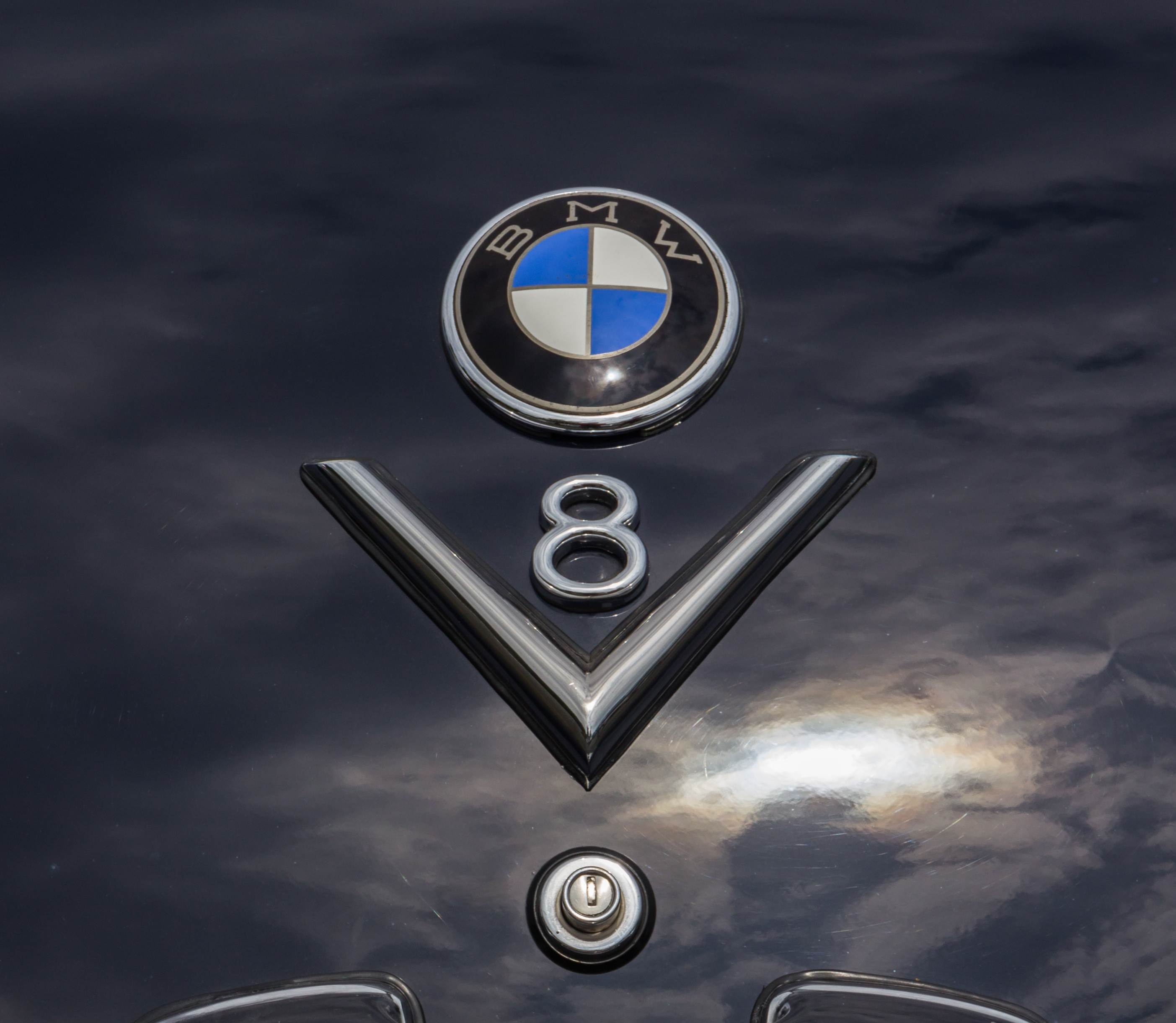 BMW 502 V8 in the parking lot of the Borkenberge Airfield, Lüdinghausen, North Rhine-Westphalia, Germany